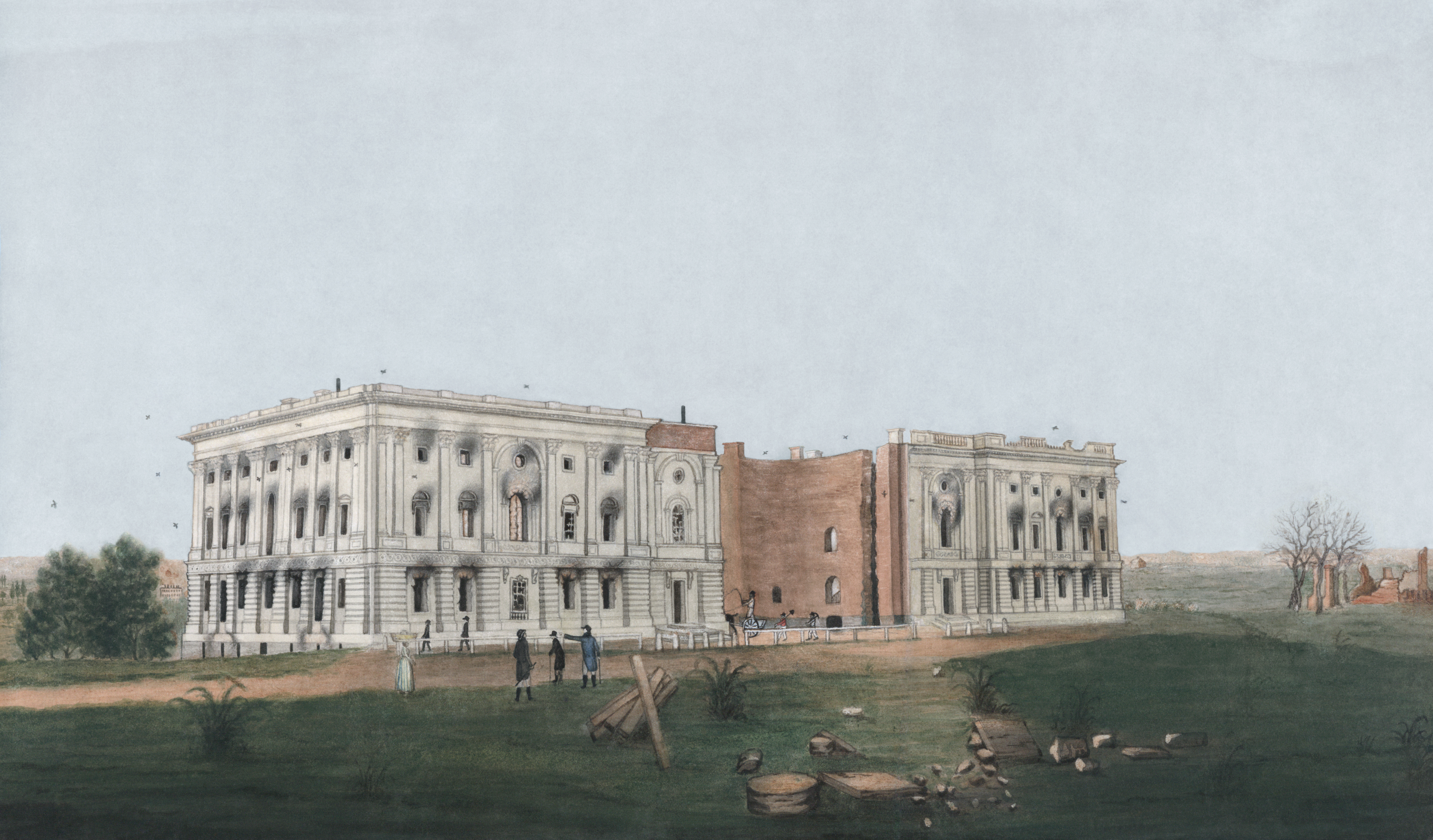 "Drawing shows the ruins of the U.S. Capitol following British attempts to burn the building; includes fire damage to the Senate and House wings, damaged colonnade in the House of Representatives shored up with firewood to prevent its collapse, and the shell of the rotunda with the facade and roof missing." "1 drawing on paper : ink and watercolor" "Historical context: George Munger's drawing, one of the most significant and compelling images of the early republic, reminds us how short-lived the history of the United States might have been. In the evening hours of August 24, 1814, during the second year of the War of 1812, British expeditionary forces under the command of Vice Admiral Sir Alexander Cockburn and Major General Robert Ross set fire to the unfinished Capitol Building in Washington, D.C. All the public buildings in the developing city, except the Patent Office Building, were put to the torch in retaliation for what the British perceived as excessive destruction by American forces the year before in York, capital of upper Canada. At the time of the British invasion, the unfinished Capitol building comprised two wings connected by a wooden causeway. This exceptional drawing, having descended in the Munger family, was purchased by the Library of Congress at the same time the White House purchased the companion view of 'The President's House.'"